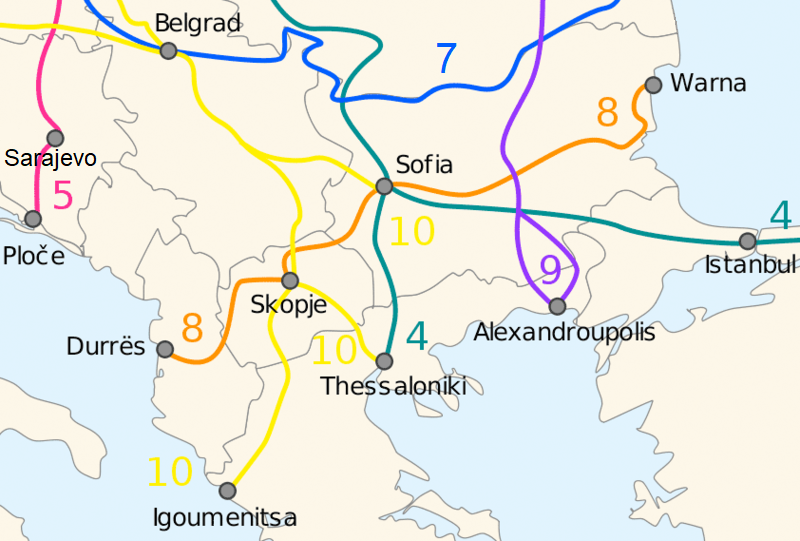 Map of the Pan-European transport corridor VIII.